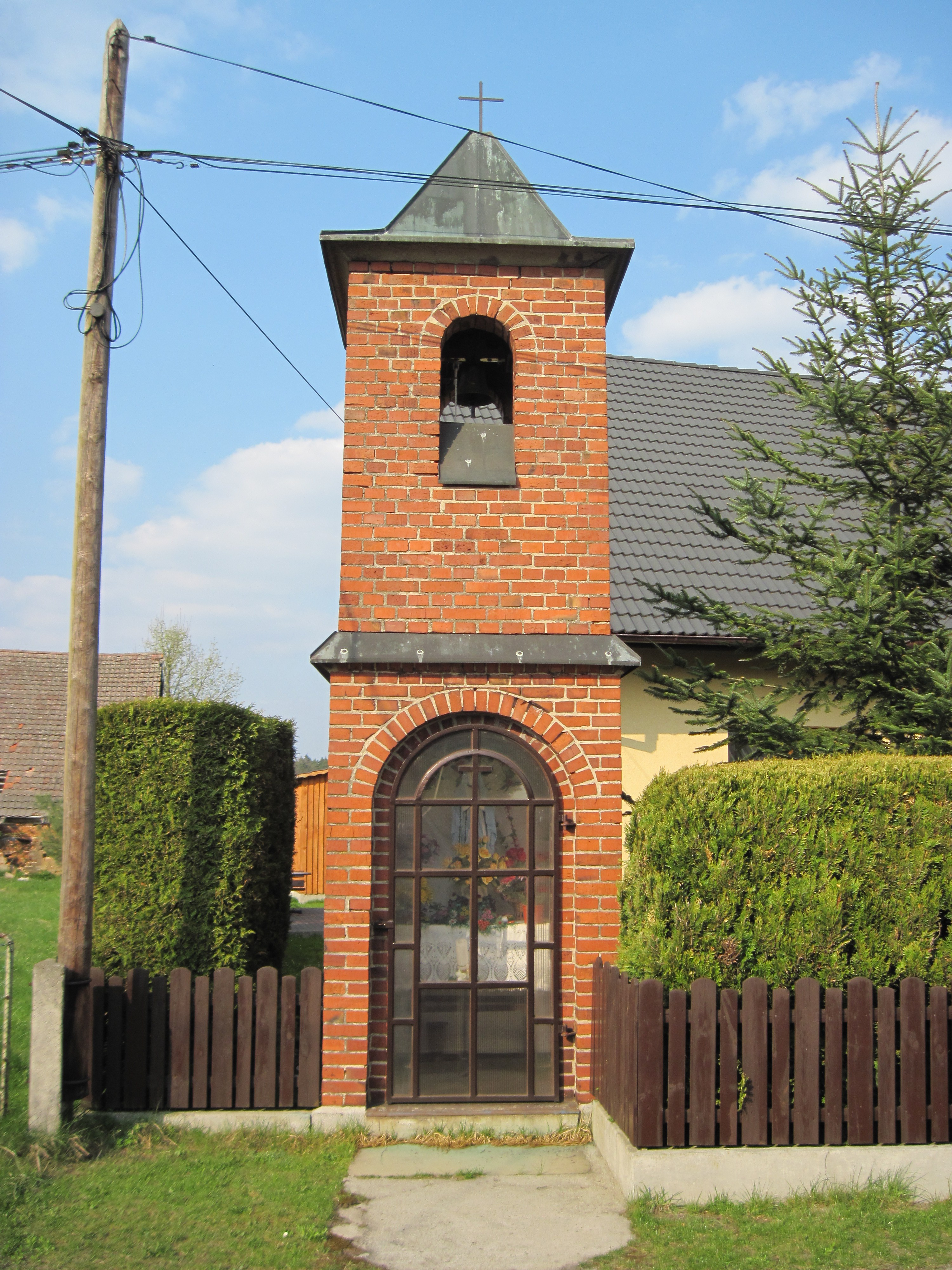 Blessed Virgin Mary's shrine at Kwiatowa street in Brynica.